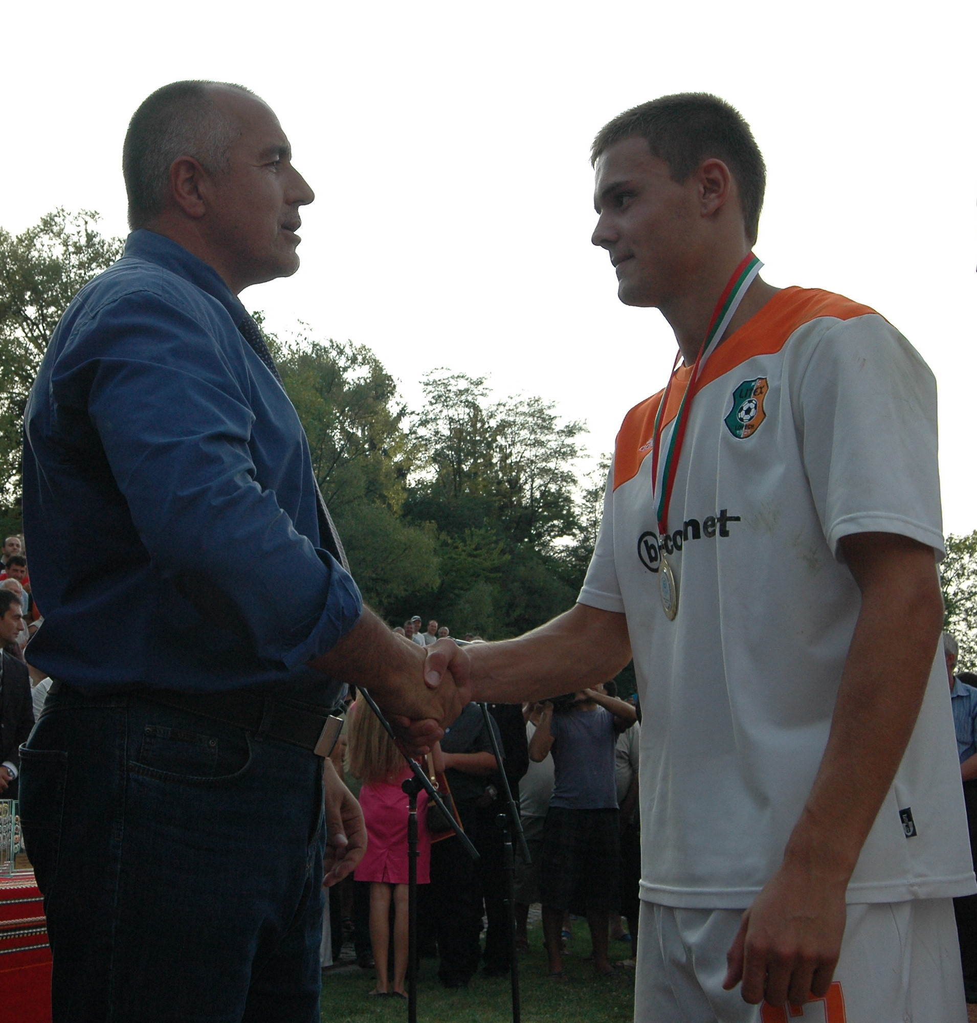 Christian Tafradjiyski